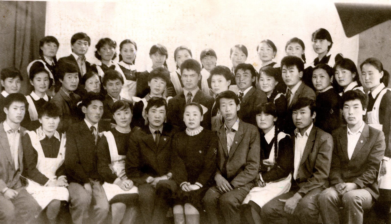 Ахлах Ангийн хамт олон